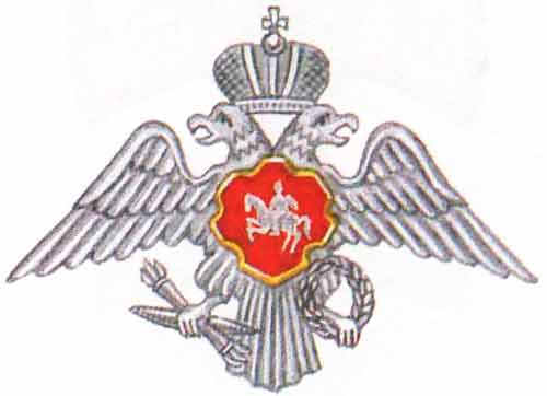 Badge of Litovsky Guard Regiment.